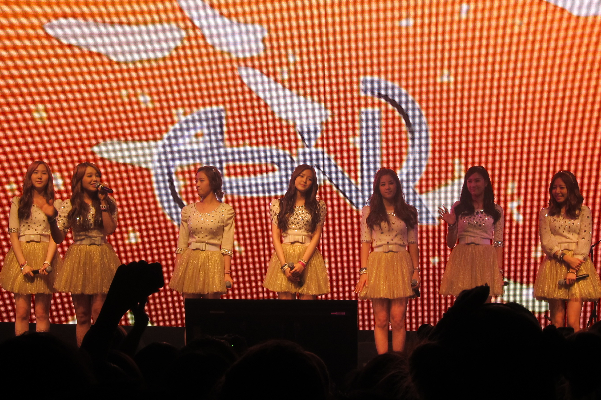 South Korean girl group A Pink at the 2K12 Korea Night concert in Toronto, Canada. Left to right: Yookyung, Eunji, Bomi, Nauen, Chorong, Hayoung and Namjoo.